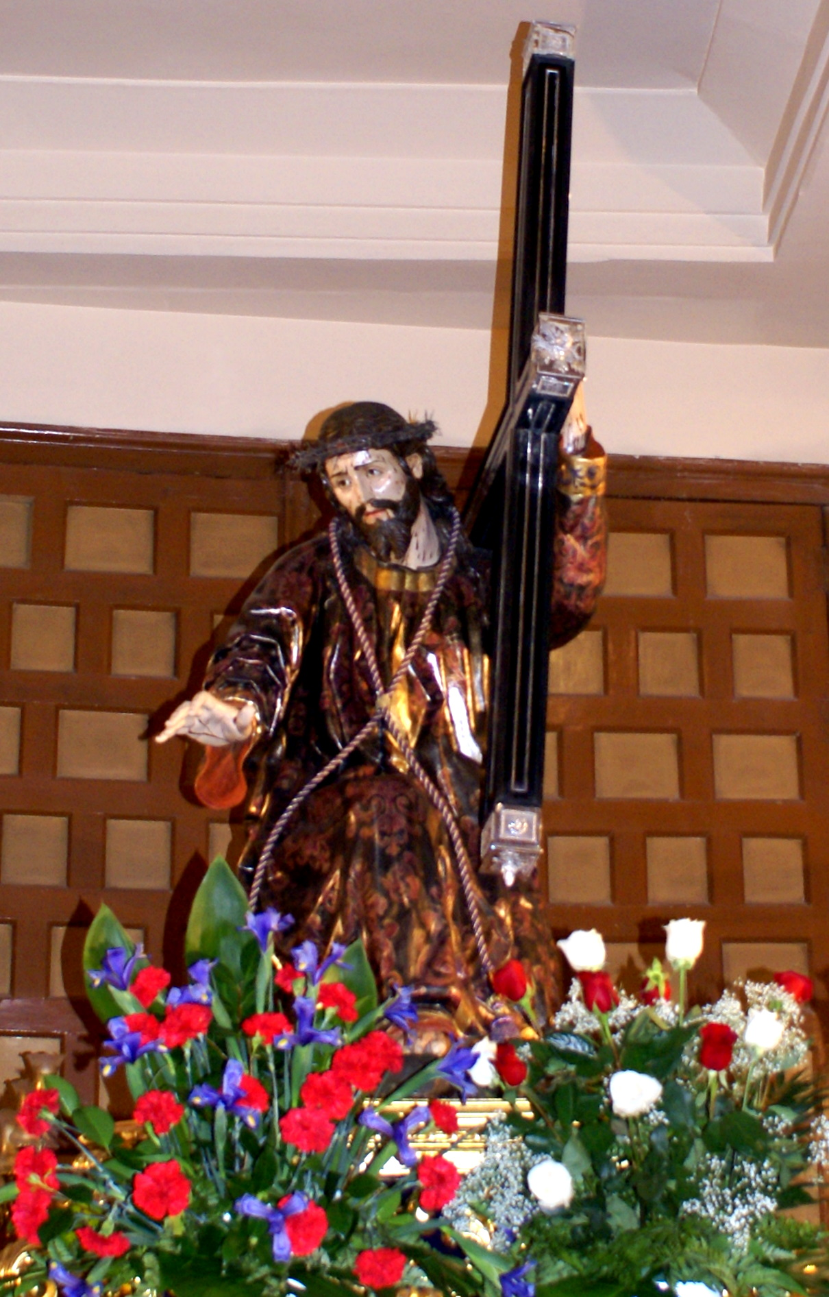 "Nuestro Padre Jesús Nazareno", possibly made by various authors, 1665, Valladolid.